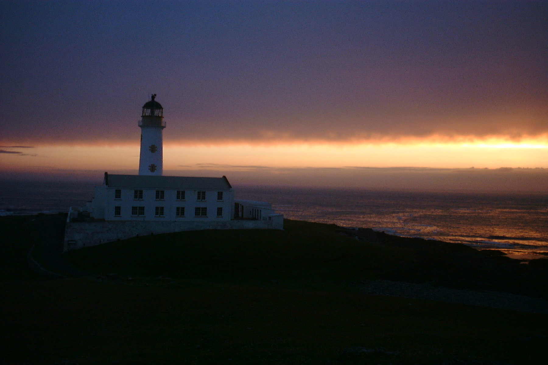 Sunset over the South Lighthouse at Fair Isle, Shetland. Photo taken in august 2001 by LHOON